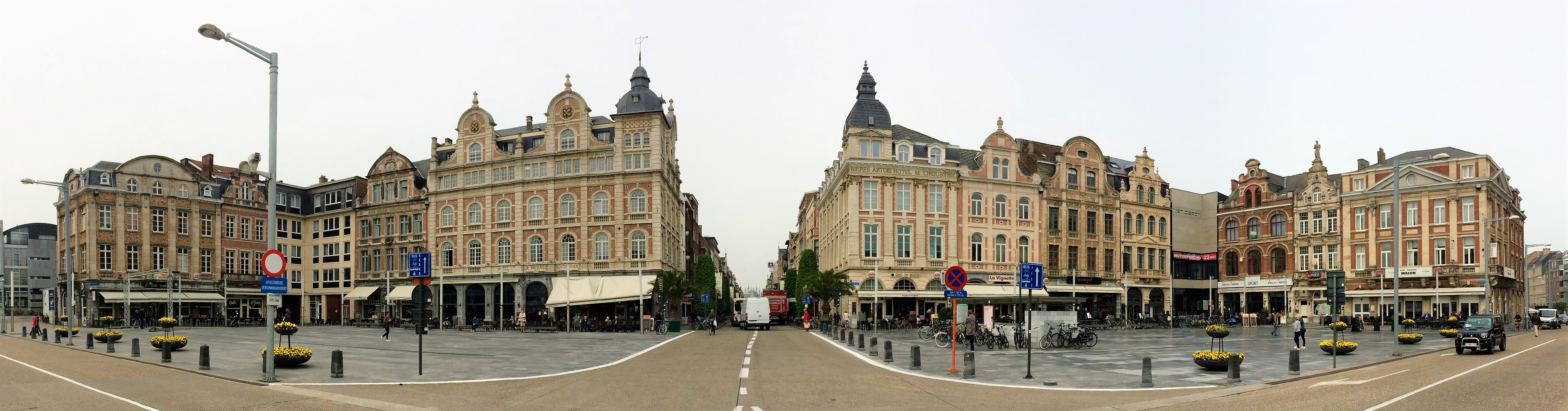 Martyrs' Square (Martelarenplein) in Leuven, Belgium.